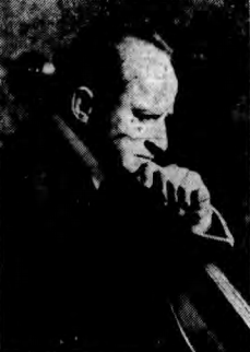 Polish-born cellist Hans Kronold appearing on The Saratogian (journal), issue of April 2, 1921.